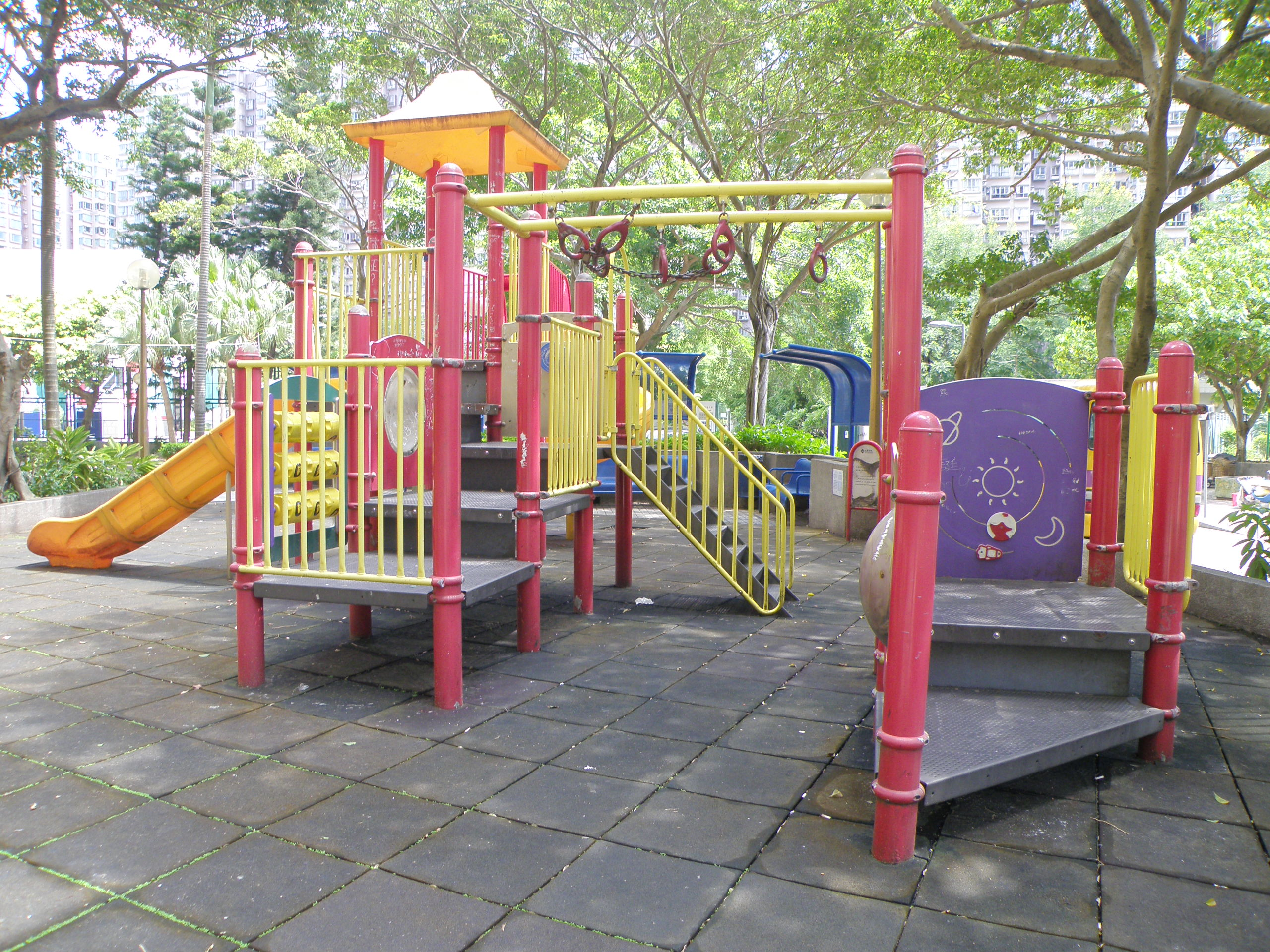 Tai Wo Estate in Tai Po, Hong Kong.